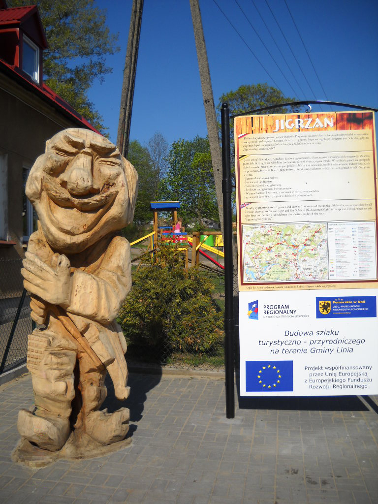 Statue of Kashubian mytical personage Jigrzan located on the „Poczuj Kaszubskiego Ducha” tourist route (Zakrzewo, Poland).